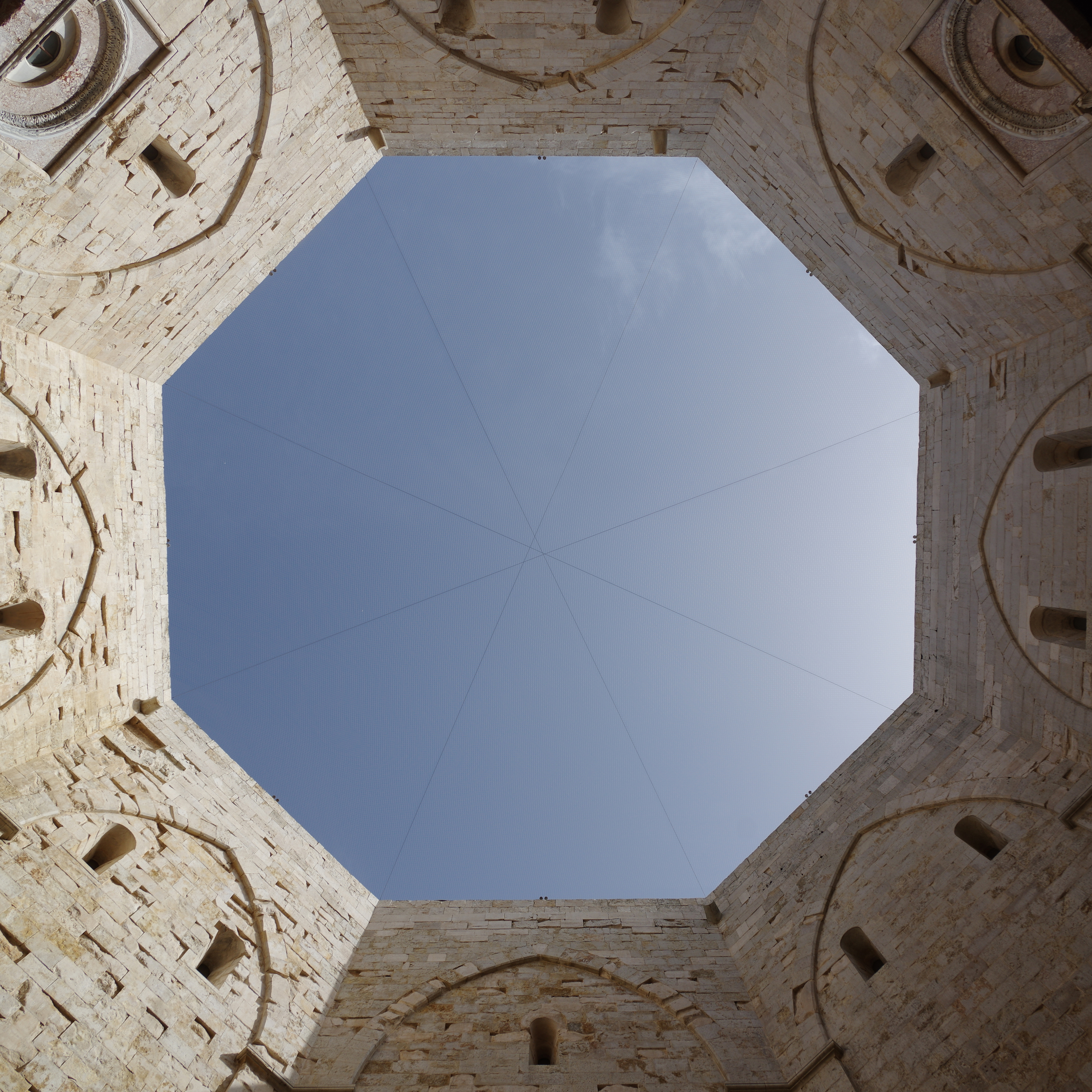 Italy, Castel del Monte, view from the courtyard upwards